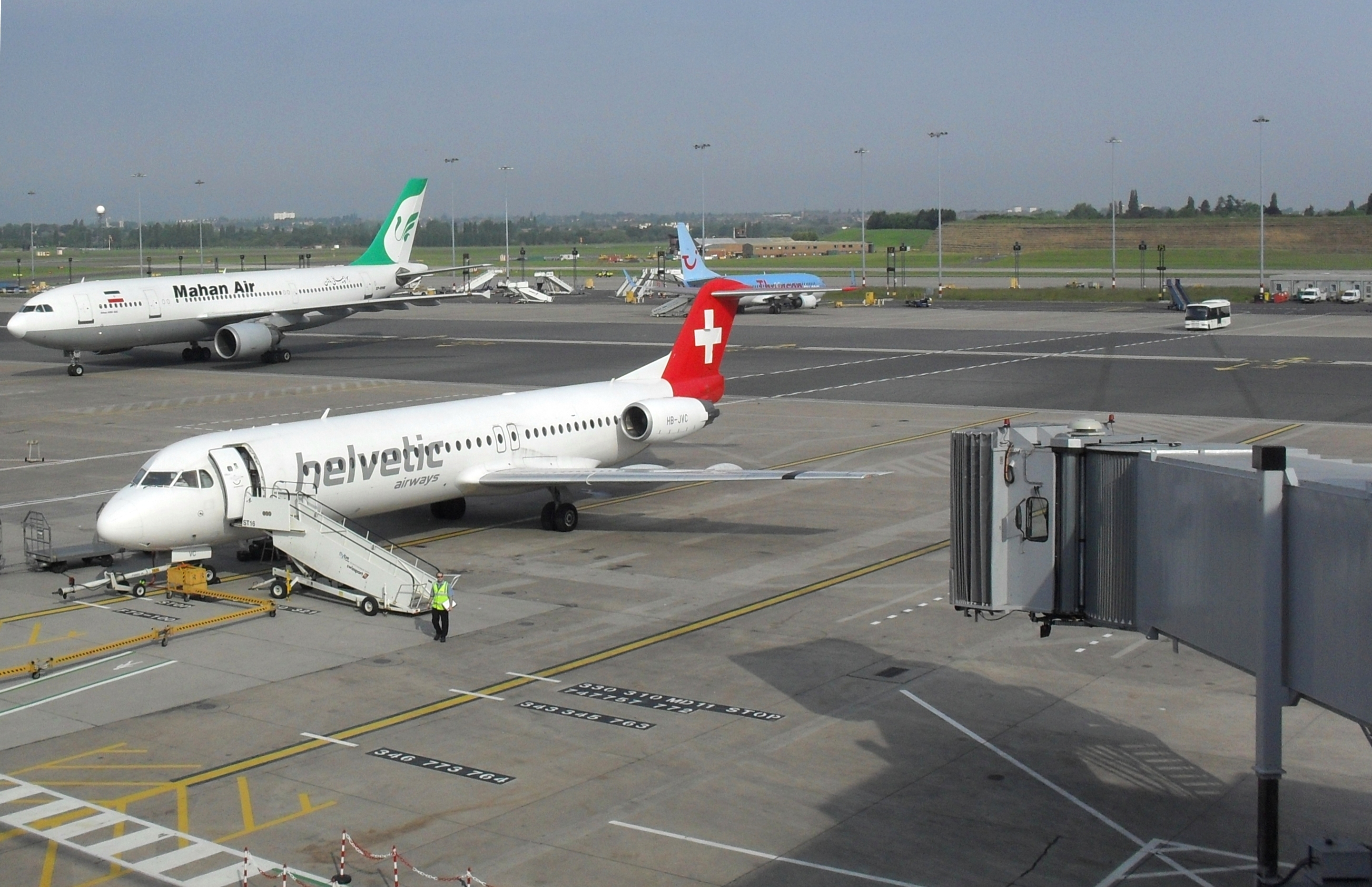 Mahan Air Airbus A300-600 and Helvetic Airways Fokker 100 at BHX